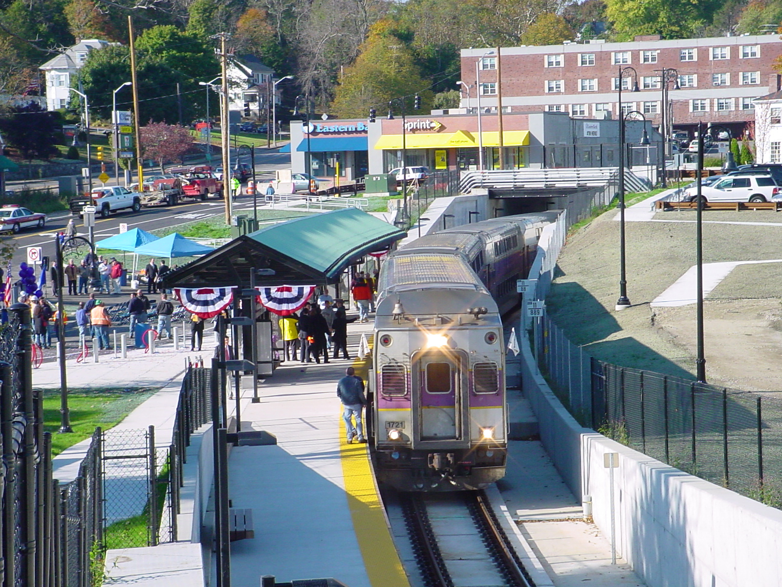 An outbound MBTA train, at the East Braintree-Weymouth Landing station, on ribbon cutting day, October 30, 2007.